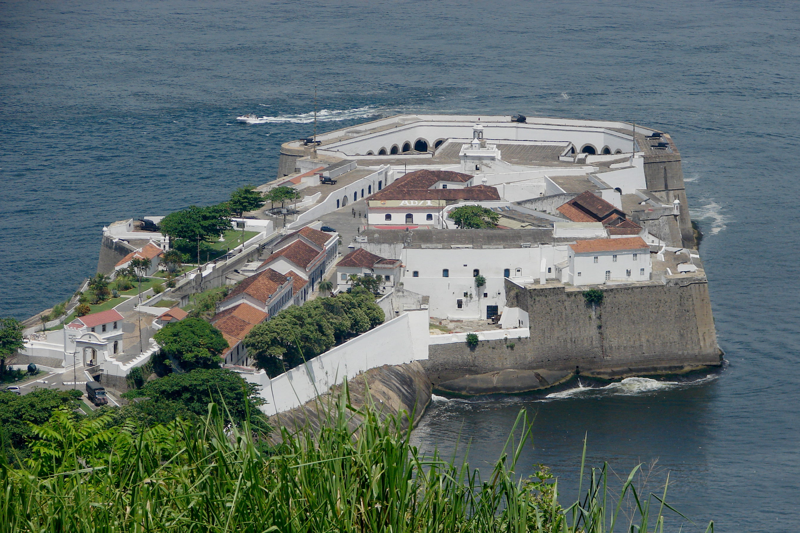 Fortress of Santa Cruz in Niterói, Brazil